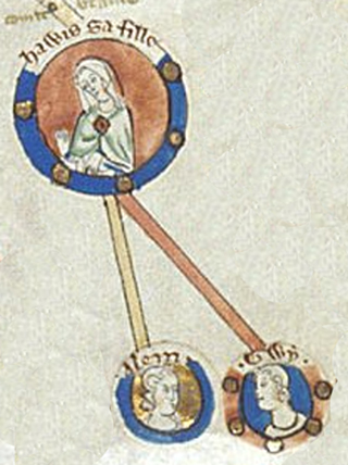 Hawise of Normandy and sons